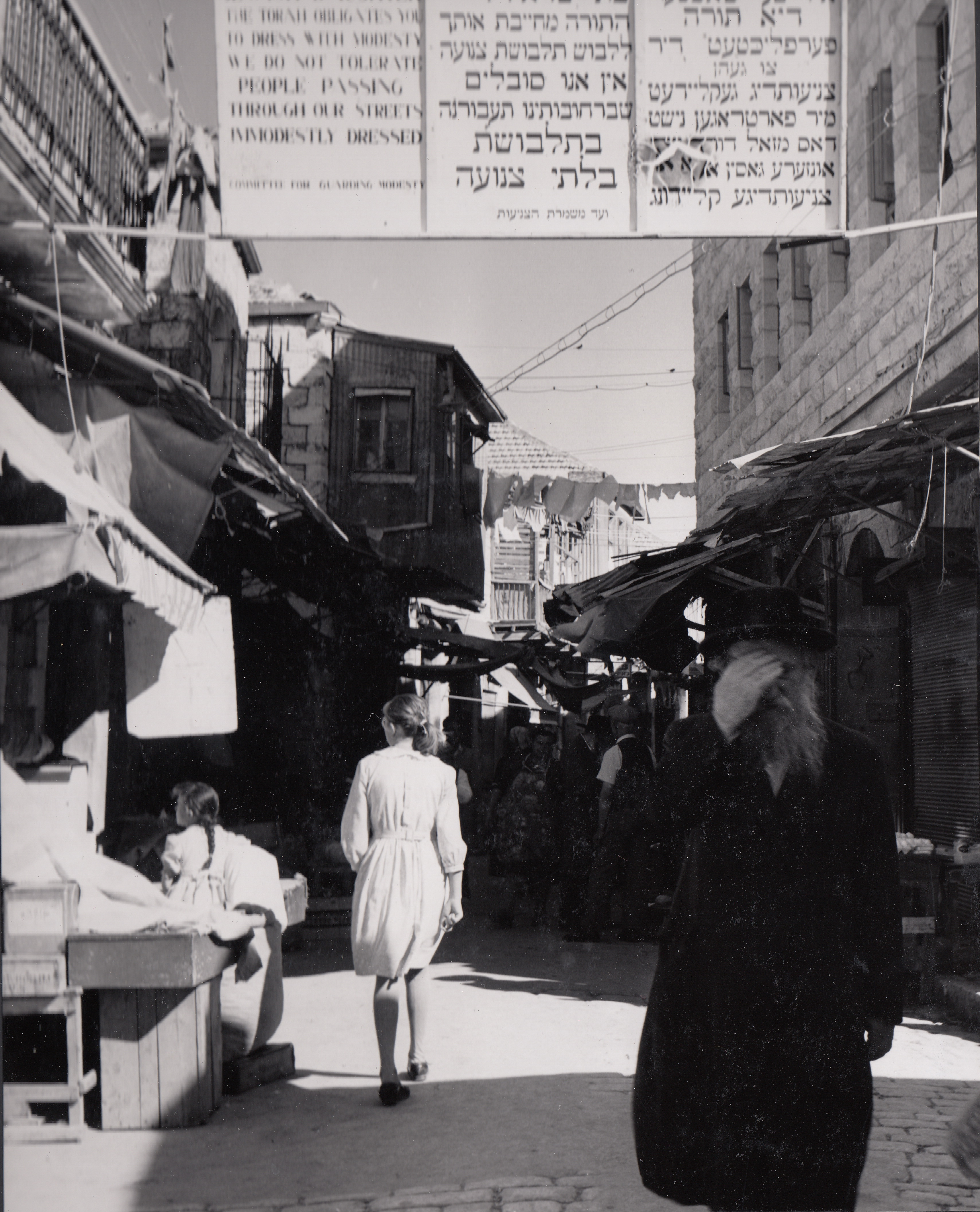 Mea Shearim, orthodox quarter in Jerusalem